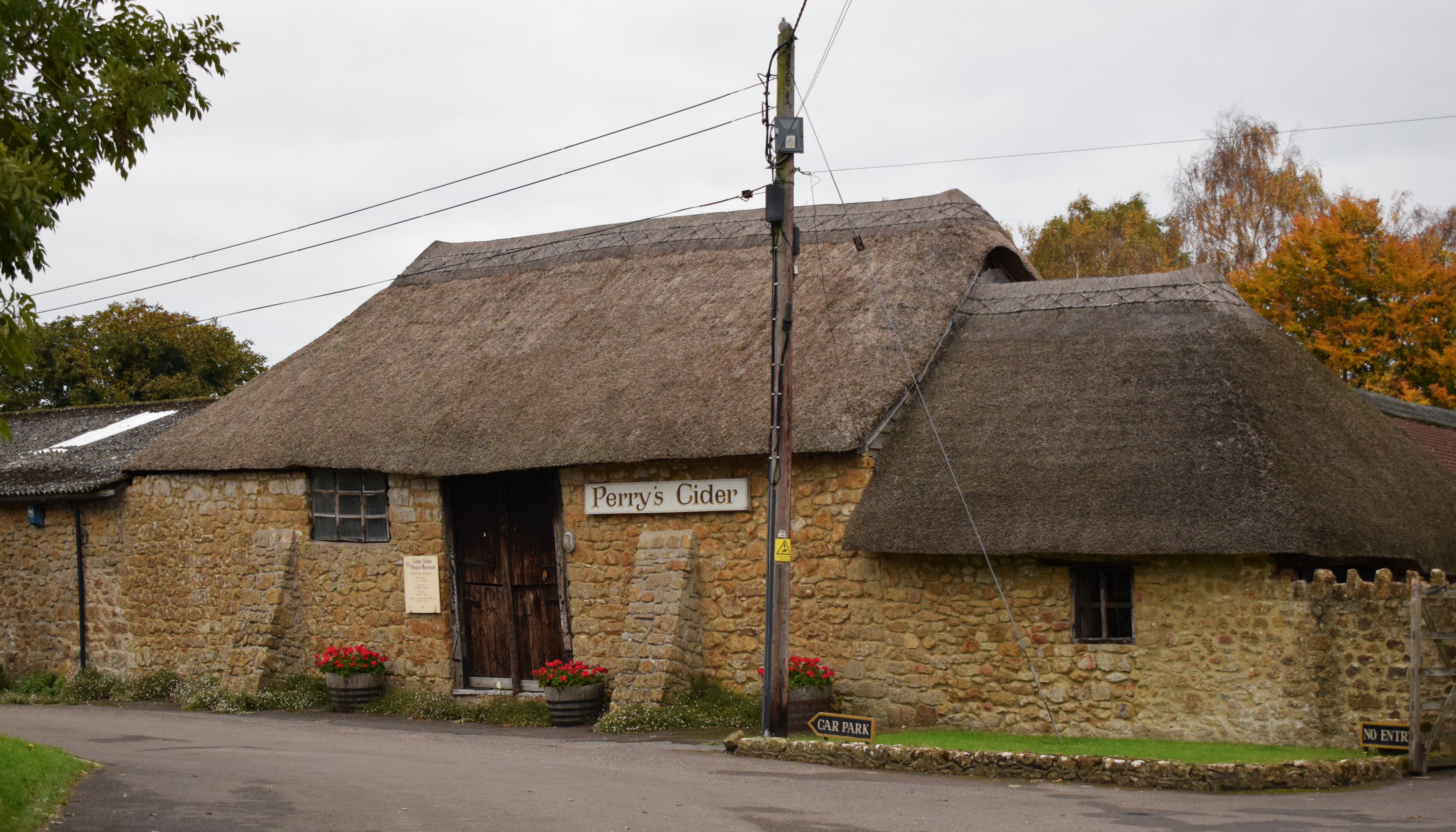 Perrys Cider Mill Wikidata has entry Q26594116 with data related to this item.